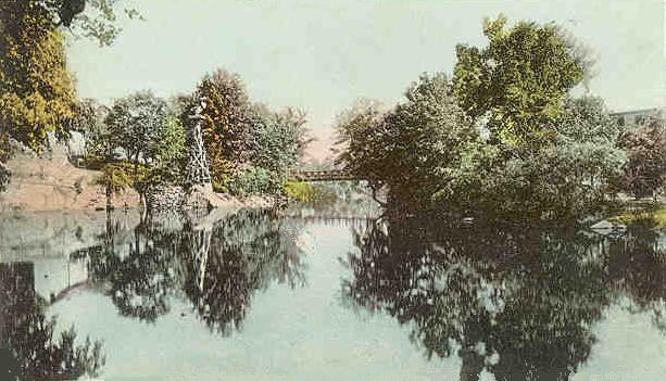 Souhegan River, Milford, NH; from a 1906 postcard.